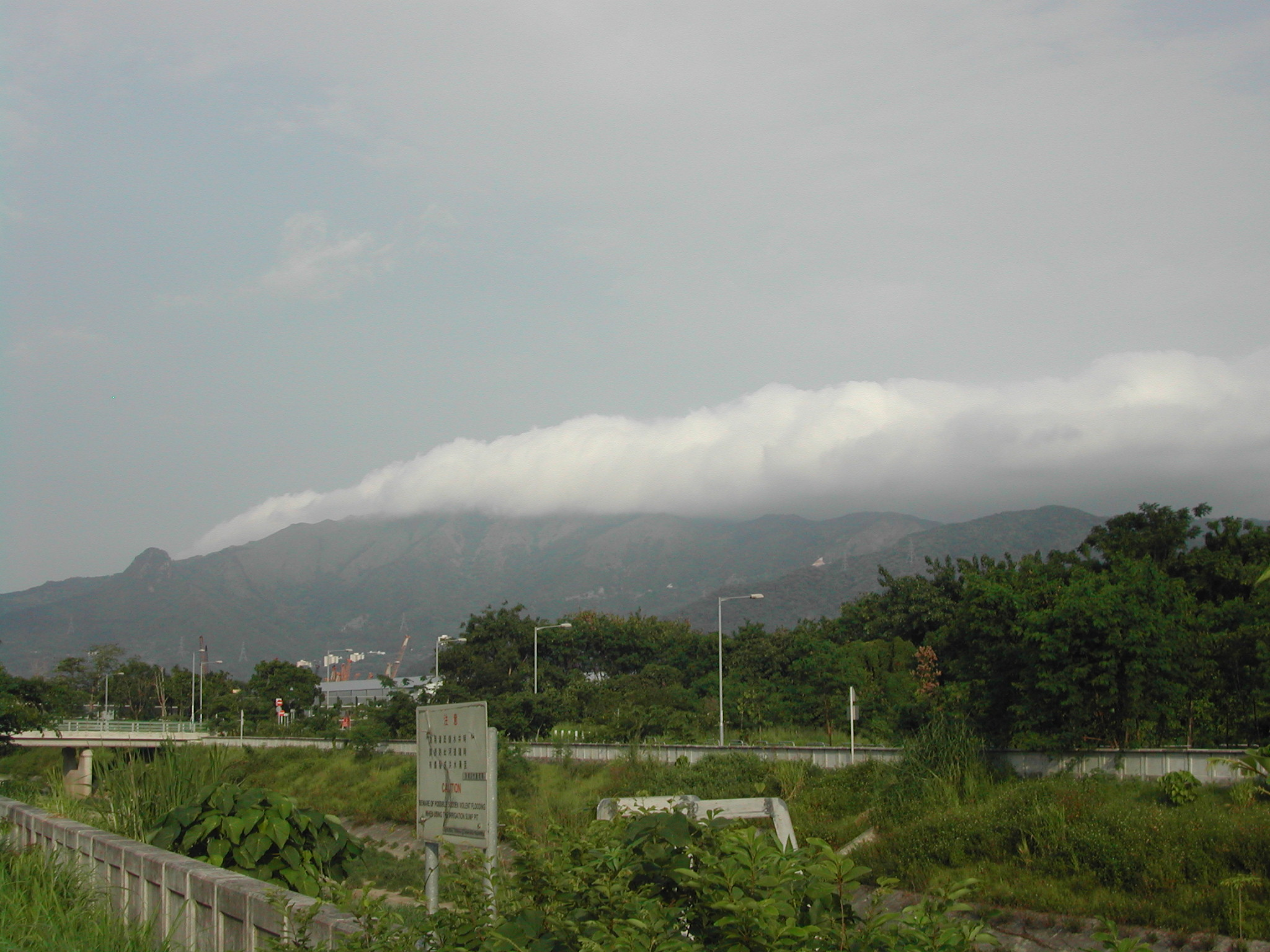 Photoed by Jerry Crimson Mann 12:43, 12 Jun 2005 (UTC).